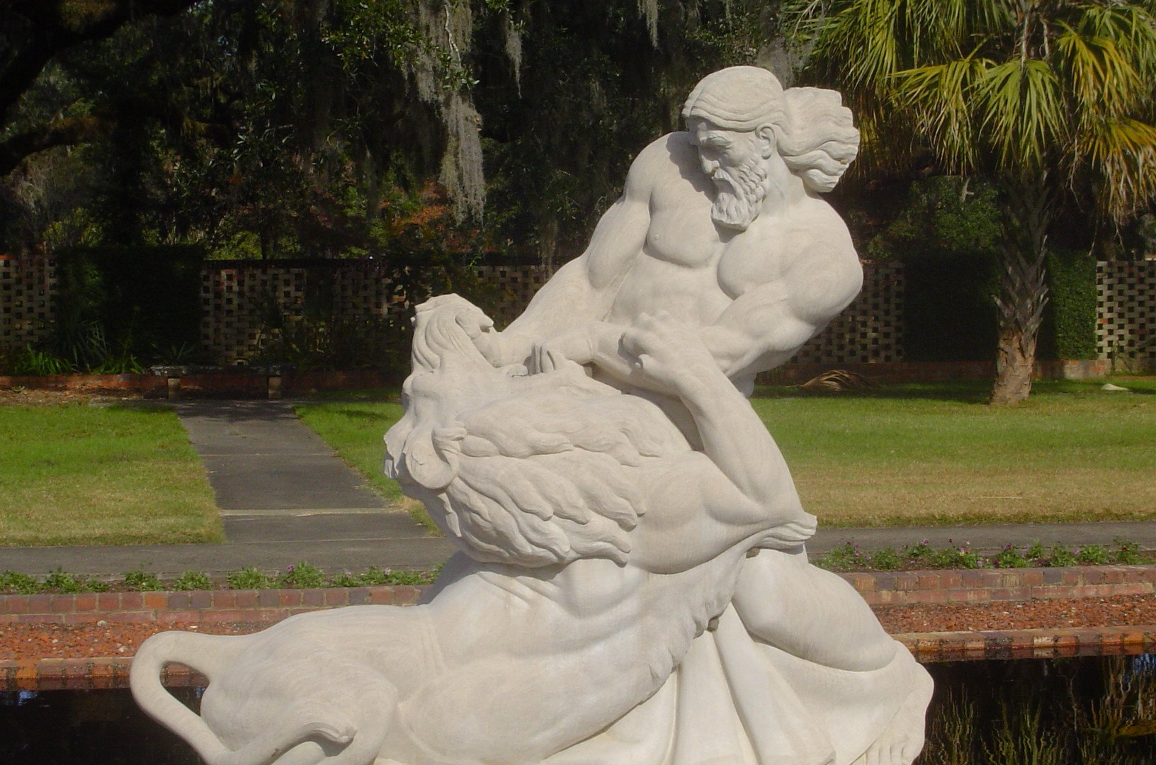 Brookgreen Gardens - sculpture garden. Samson and the Lion, by Gleb W. Derujinsky